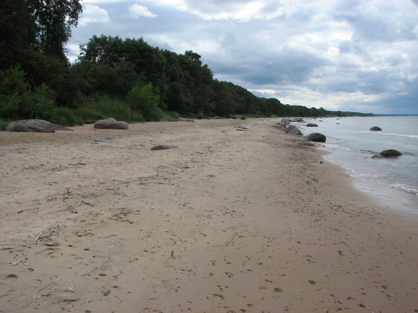 Aa beach in Estonia.